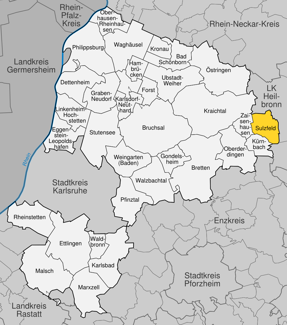 position of Sulzfeld within distict of Karlsruhe, Baden-Württemberg, Germany